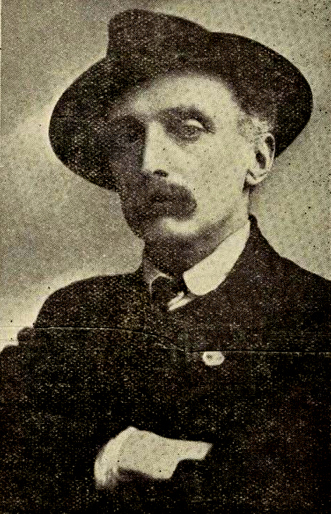 Photograph of Walter Carpenter, Irish Socialist, from a 1914 piece of election material.